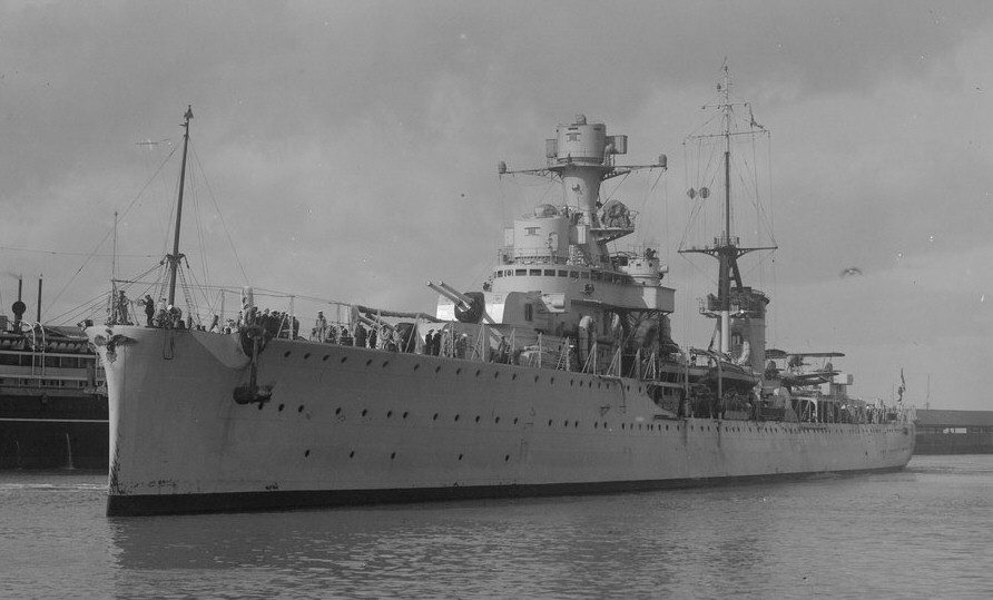 Italian cruiser Armando Diaz